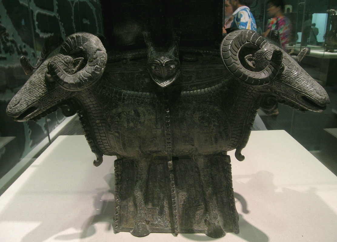 Square zun with four sheep. Late period of the Shang Dynasty (13th century B.C ~ 10th century B.C). Collection of the National Museum of China. Take photo in Exhibition of Ancient Chinese Invention Artifacts, China Science and Technology Museum in Beijing on 2008. Photo Permited.